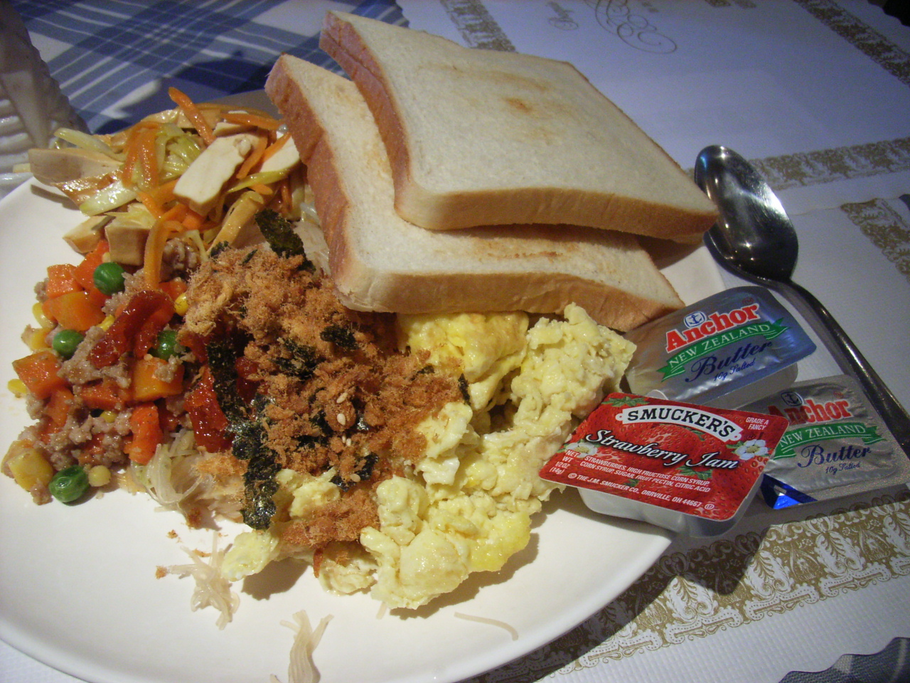 A type of hotel breakfast from European countries and very popular in Hong Kong and Taiwan. by BNBTW